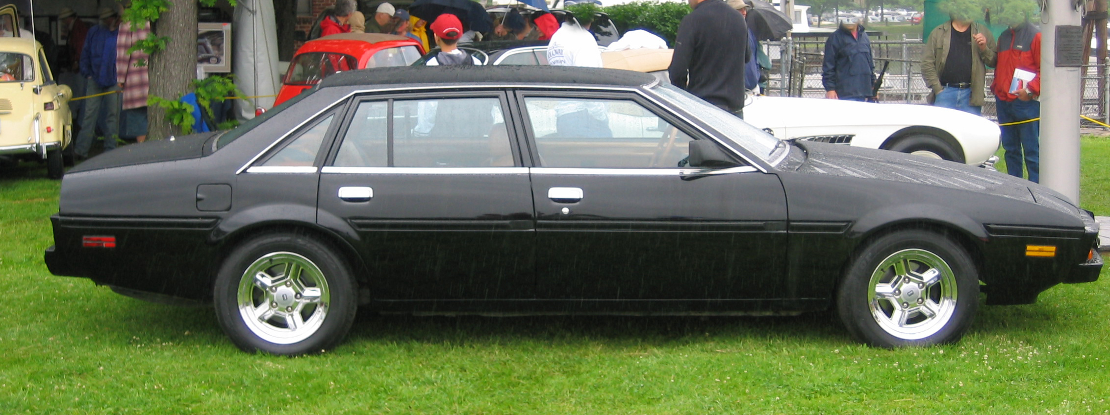 Bitter SC Sedan at the 2004 Greenwich Concours d'Élegance